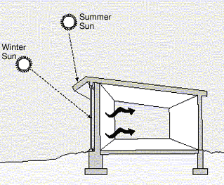 Passive solar design using an unvented trombe wall and summer shading